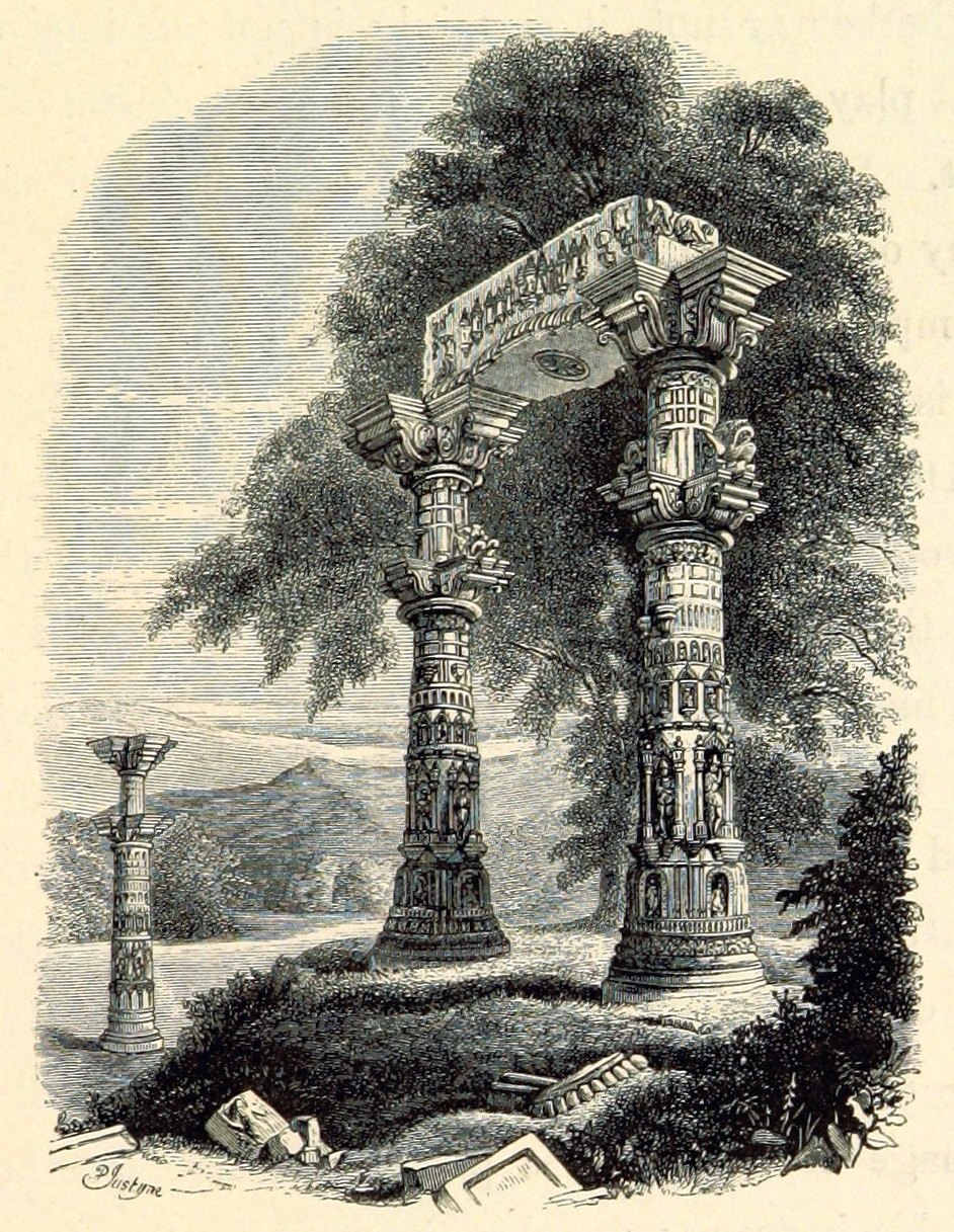 Image taken from: Title: "Architecture at Ahmedabad, the Capital of Goozerat, photographed by Colonel Biggs, ... With an historical and descriptive sketch, by T. C. H., ... and architectural notes by J. Fergusson, etc" Author: HOPE, Theodore Cracraft - Sir, K.C.S.I Contributor: BIGGS, Thomas. Contributor: FERGUSSON, James - Architect Shelfmark: "British Library HMNTS 10057.f.17.", "British Library OC V 6665" Page: 121 Place of Publishing: London Date of Publishing: 1866 Issuance: monographic Identifier: 001730119 Explore: Find this item in the British Library catalogue, 'Explore'. Download the PDF for this book (volume: 0) Image found on book scan 121 (NB not necessarily a page number) Download the OCR-derived text for this volume: (plain text) or (json) Click here to see all the illustrations in this book and click here to browse other illustrations published in books in the same year. Order a higher quality version from here.